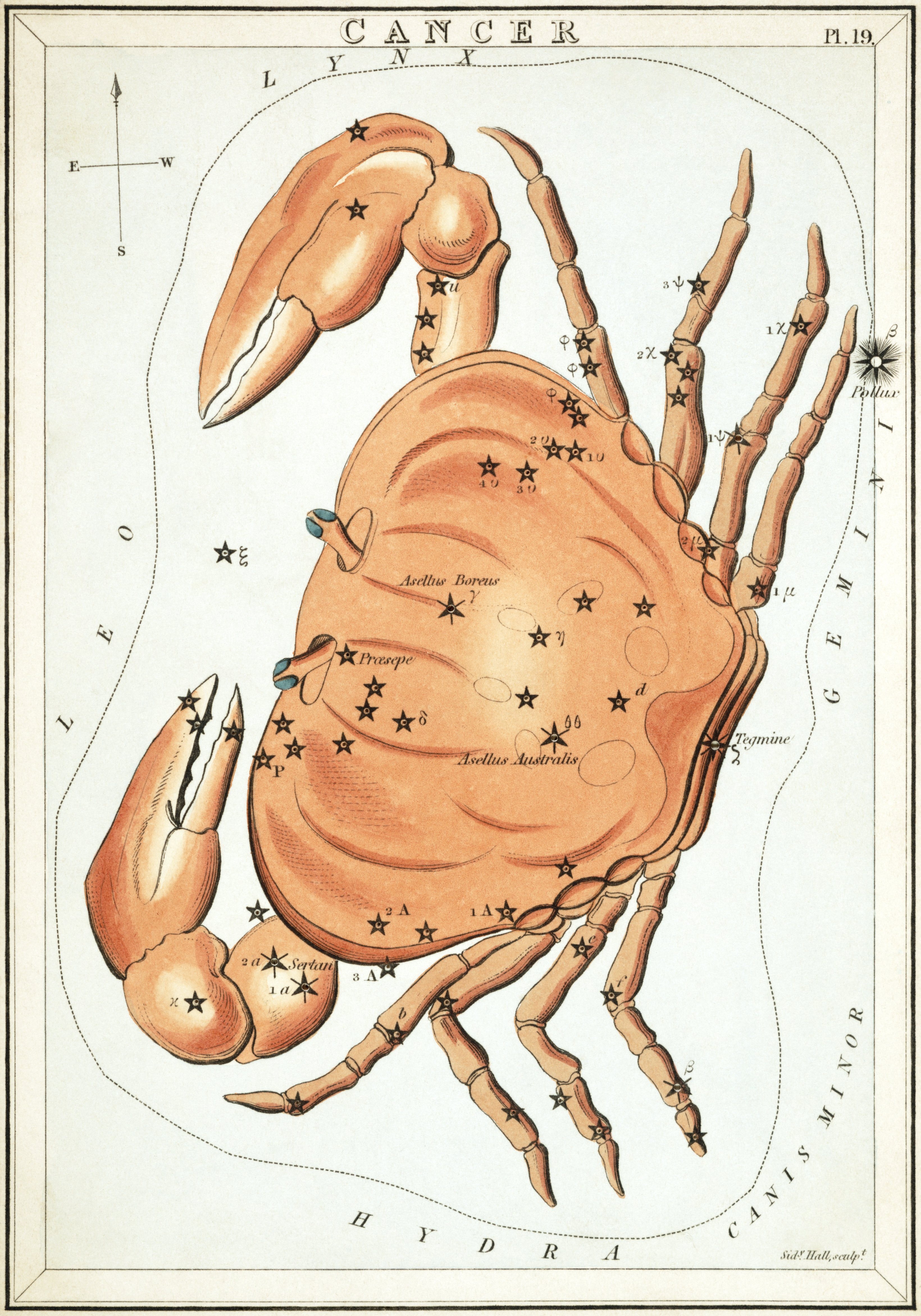 "Cancer", plate 19 in Urania's Mirror, a set of celestial cards accompanied by A familiar treatise on astronomy ... by Jehoshaphat Aspin. London. Astronomical chart, 1 print on layered paper board : etching, hand-colored.